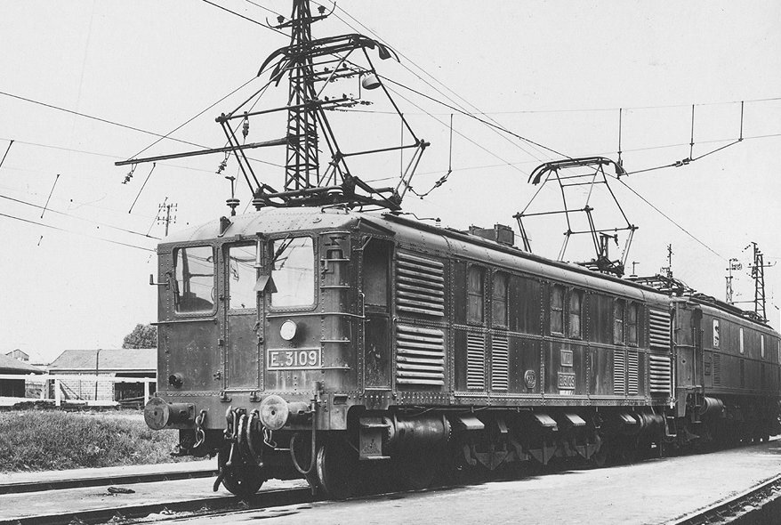 Electric locomotive Midi 2C2 E 3109, 1500 V CC, delivered in 1923-26.